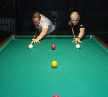 Photo by KABIKE ry.